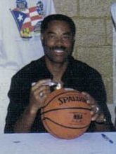 Basketball Hall of Famer Walt Frazier